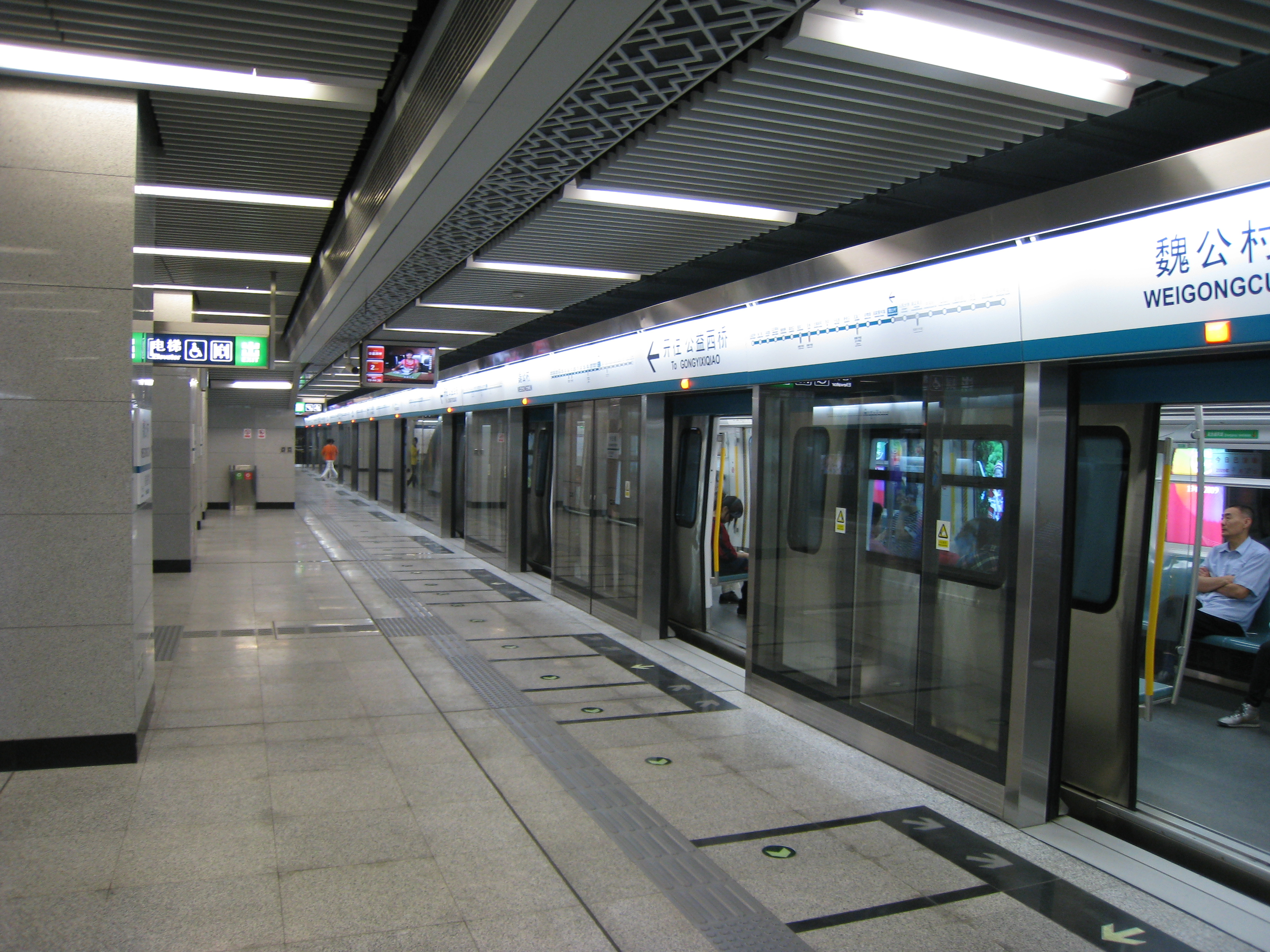 The platform of Weigongcun Station of Line 4, Beijing Subway, with a train.